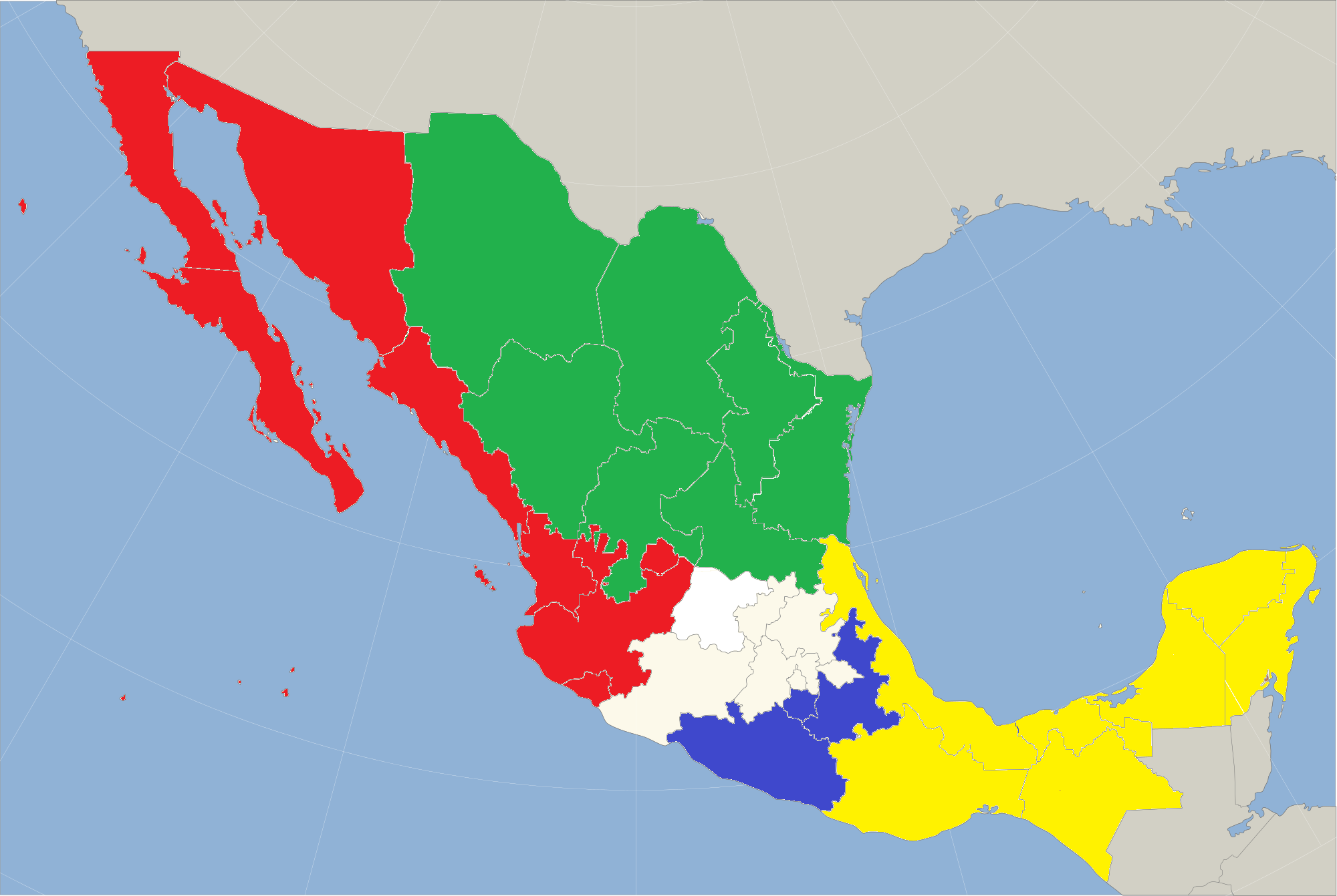 Green - Diocese of the North Red - Diocese of the West Yellow - Diocese of the Southeast White - Diocese of Mexico Blue - Diocese of Cuernavaca